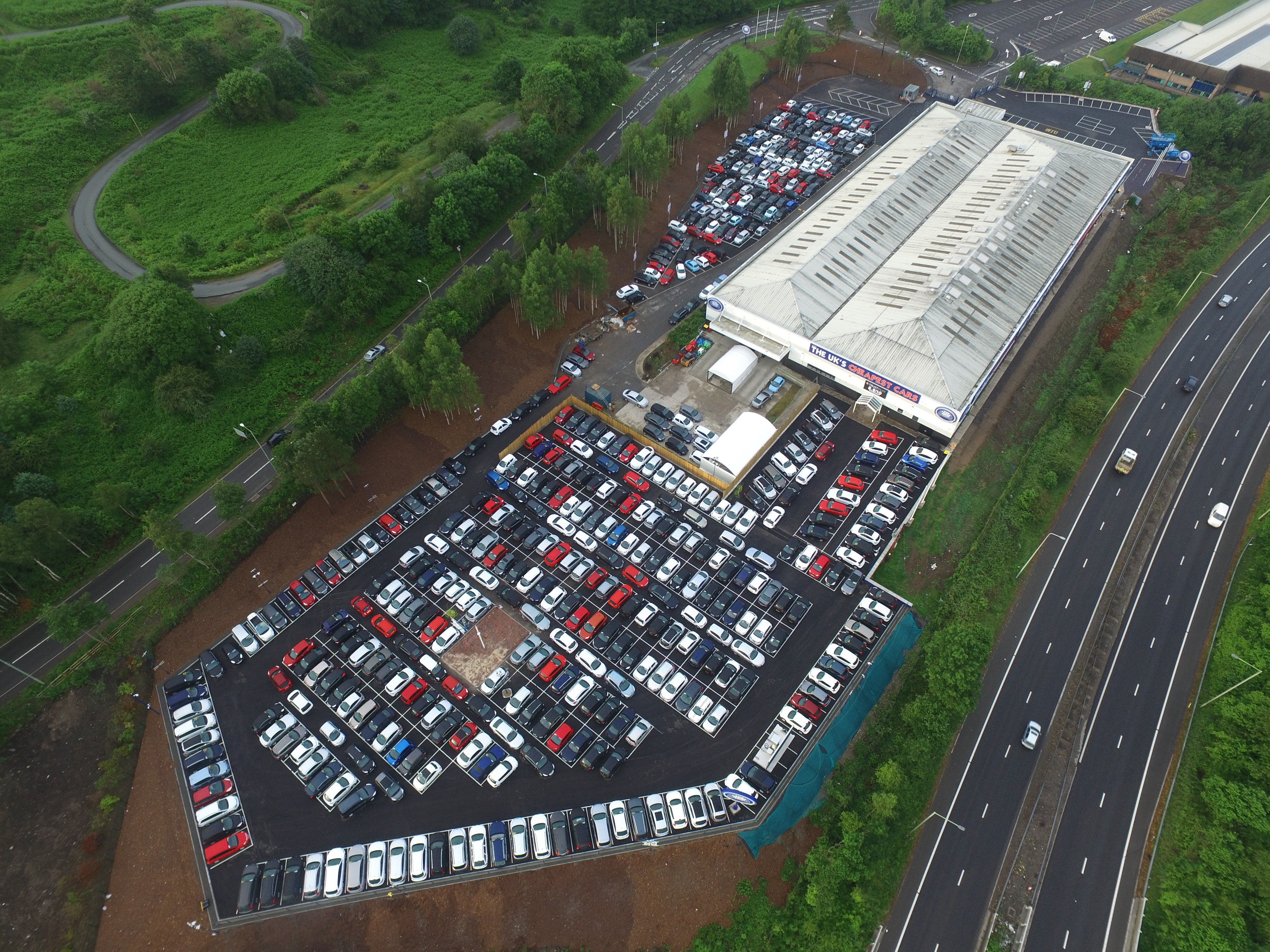 Cardiff North on the A470 in Abercynon